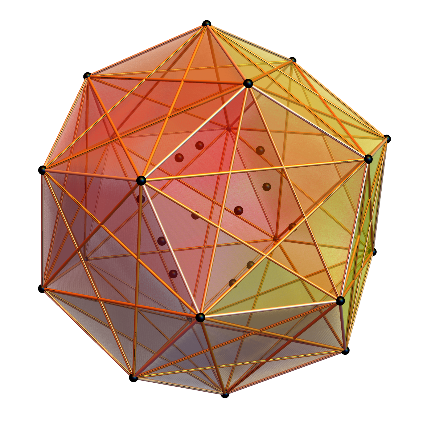 The 6 Demicube from an even number of +/- signs is projected to the hull of an dodecahedron using basis vectors of: x = {1, φ, 0, -1, φ, 0} y = {φ, 0, 1, φ, 0, -1} z = {0, 1, φ, 0, -1, φ} While there are 32 vertices and 240 edges of 6D Norm'd length Sqrt[2], only the outer hull of 20 hull vertices and 30 edges that form the dodecahedron. For more information see the author's post on the topic at: [1]